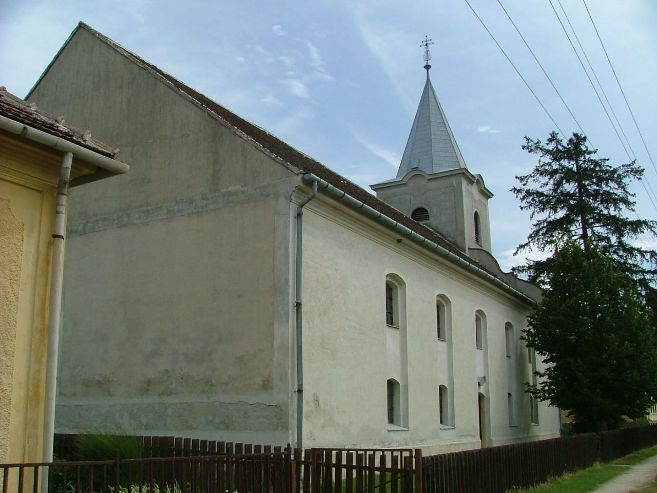 Nemeskér lutheran church This is a photo of a monument in Hungary, Identifier: 4617